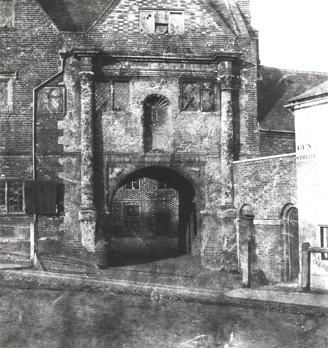 The Oracle gateway, Gun Street and Minster Street, Reading, c. 1845. There are no people in the picture. 1840-1849 : photograph by William Henry Fox Talbot. The original is in the Science Museum/Science and Society Picture Library, negative number 539/69.